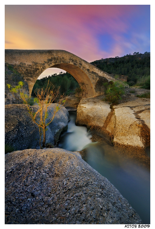 Processed with Capture NX 2 Just little adjust of saturation with Photoshop